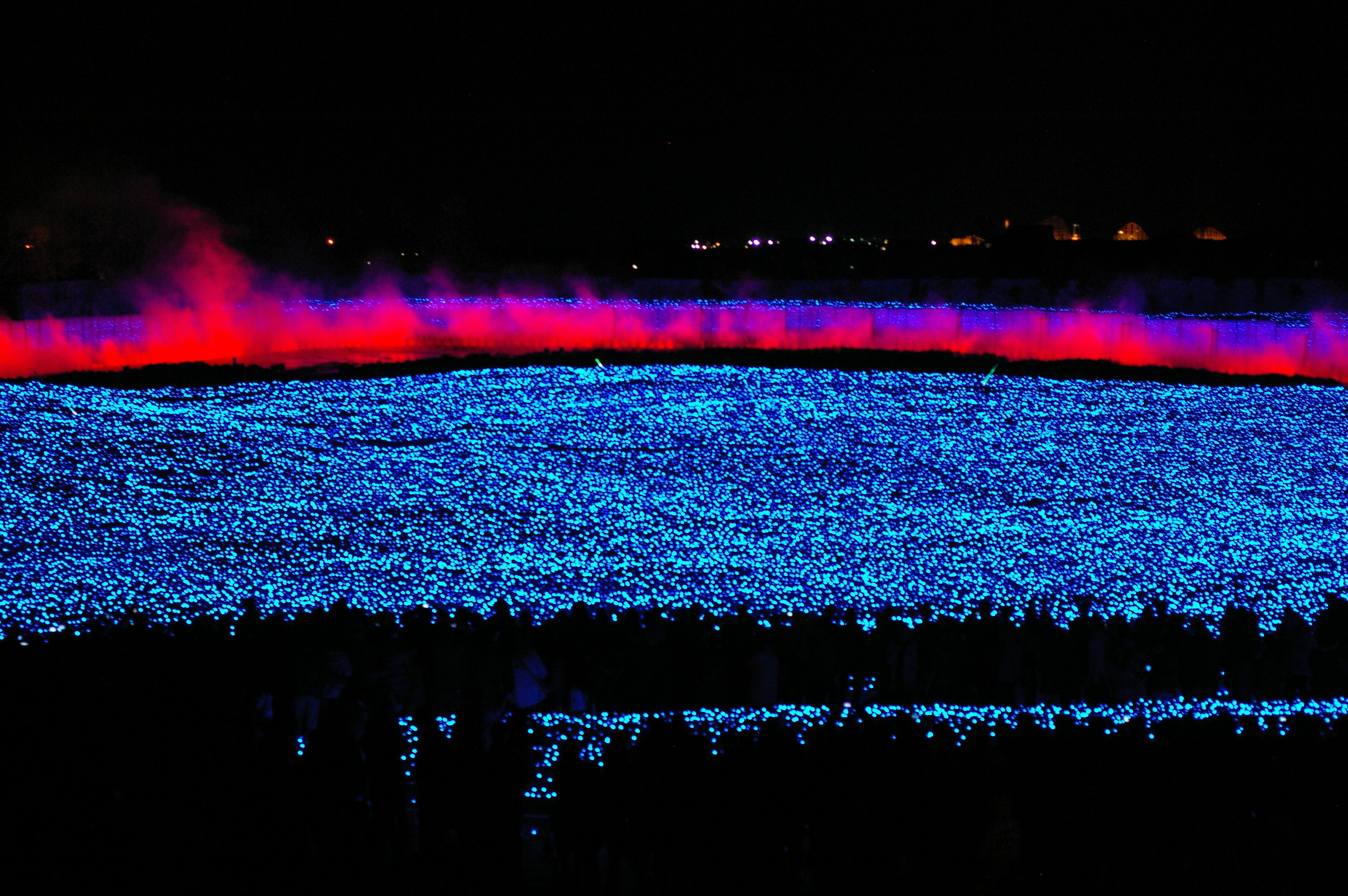 A part of the illumination display at Nabana no Sato. There are shooting stars, visible at the top edge of the field.